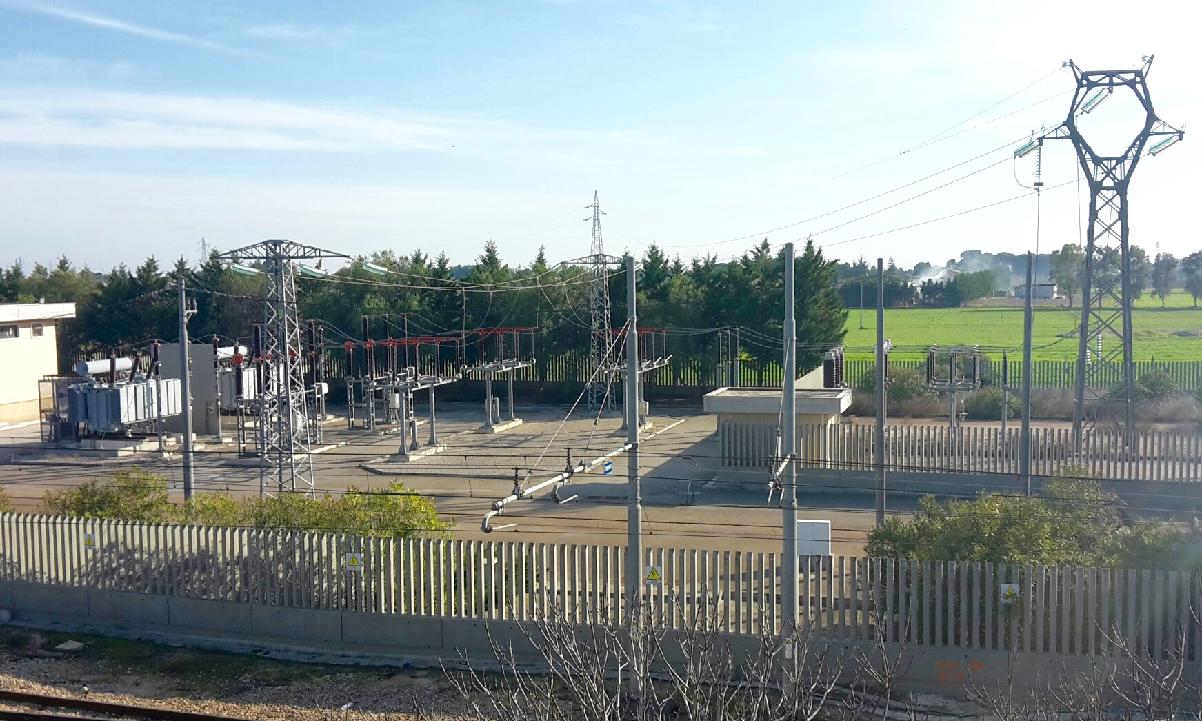 Francavilla Fontana's transformer.